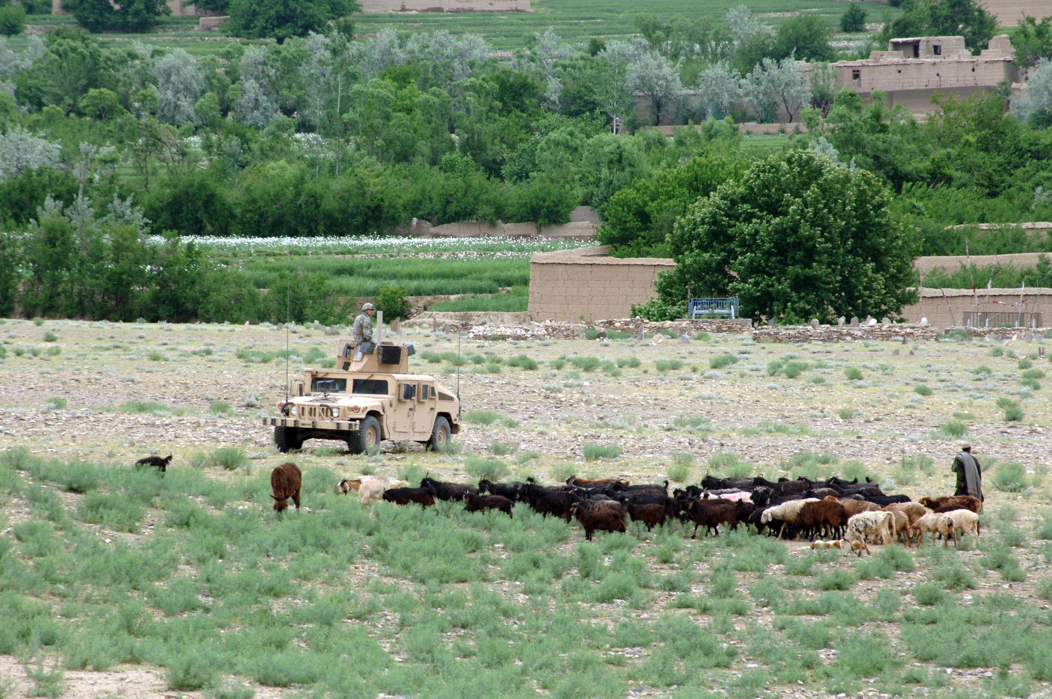 U.S. Army Soldiers from the Arizona National Guard provide security as members of the Bagram Provincial Reconstruction Team conduct a medical civic action program in the district of Tagab in the Kapisa Province of Afghanistan April 30, 2007. (U.S. Army photo by Staff Sergeant Michael Bracken) [1]